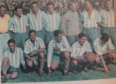 Argentine football team of Racing Club that won the "Copa Beccar Varela" in 1932.